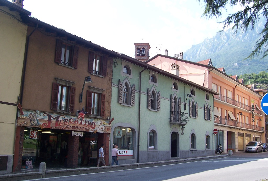 Center of Corna (Darfo Boario Terme), Valle Camonica